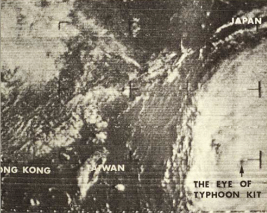 ESSA-2 satellite image capture by Hong Kong Observatory.